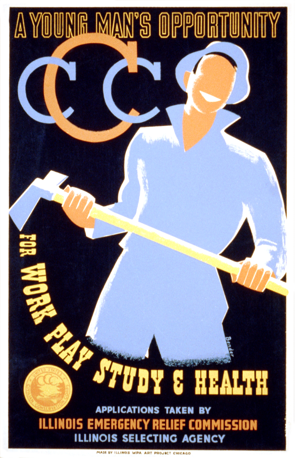 Poster promoting the Civilian Conservation Corps made by the Illinois WPA Art Project Chicago